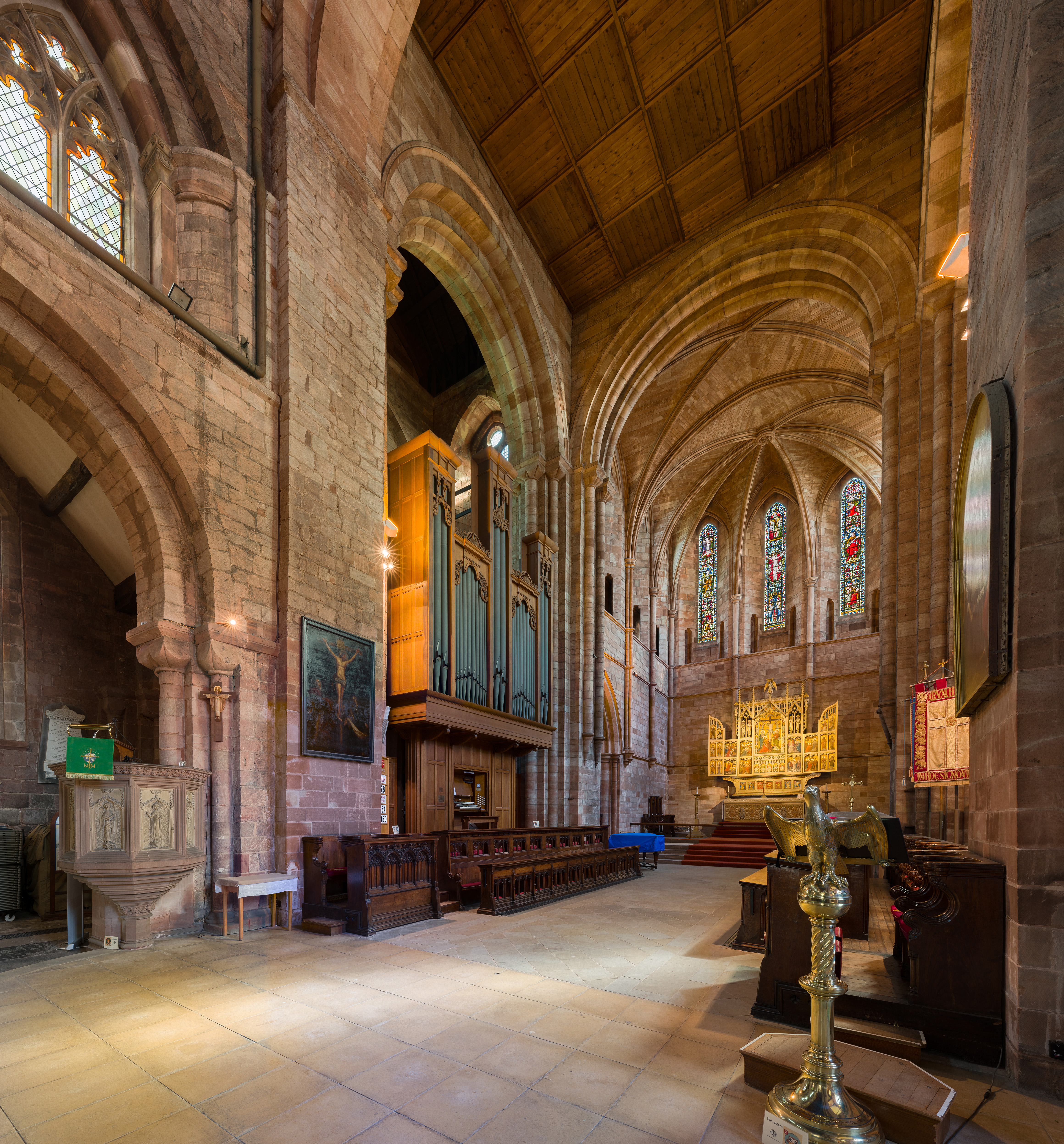 The altar and organ of Shrewsbury Abbey, Shropshire, England.